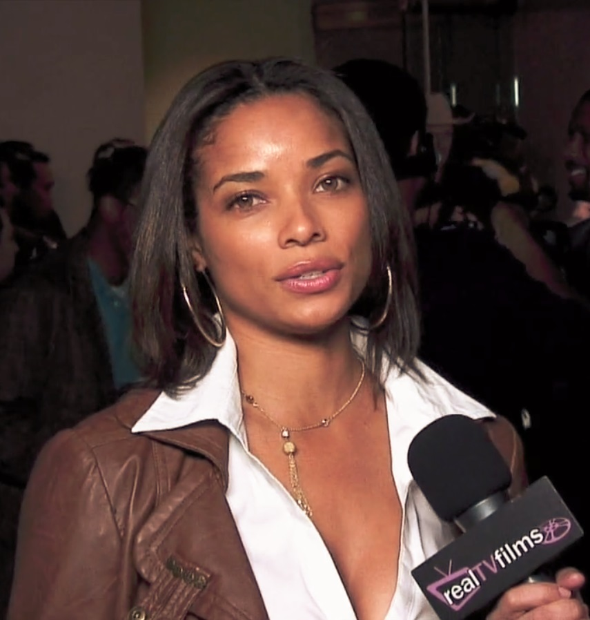 American actress Rochelle Aytes interviewed about The Forgotten by Real TV Films.